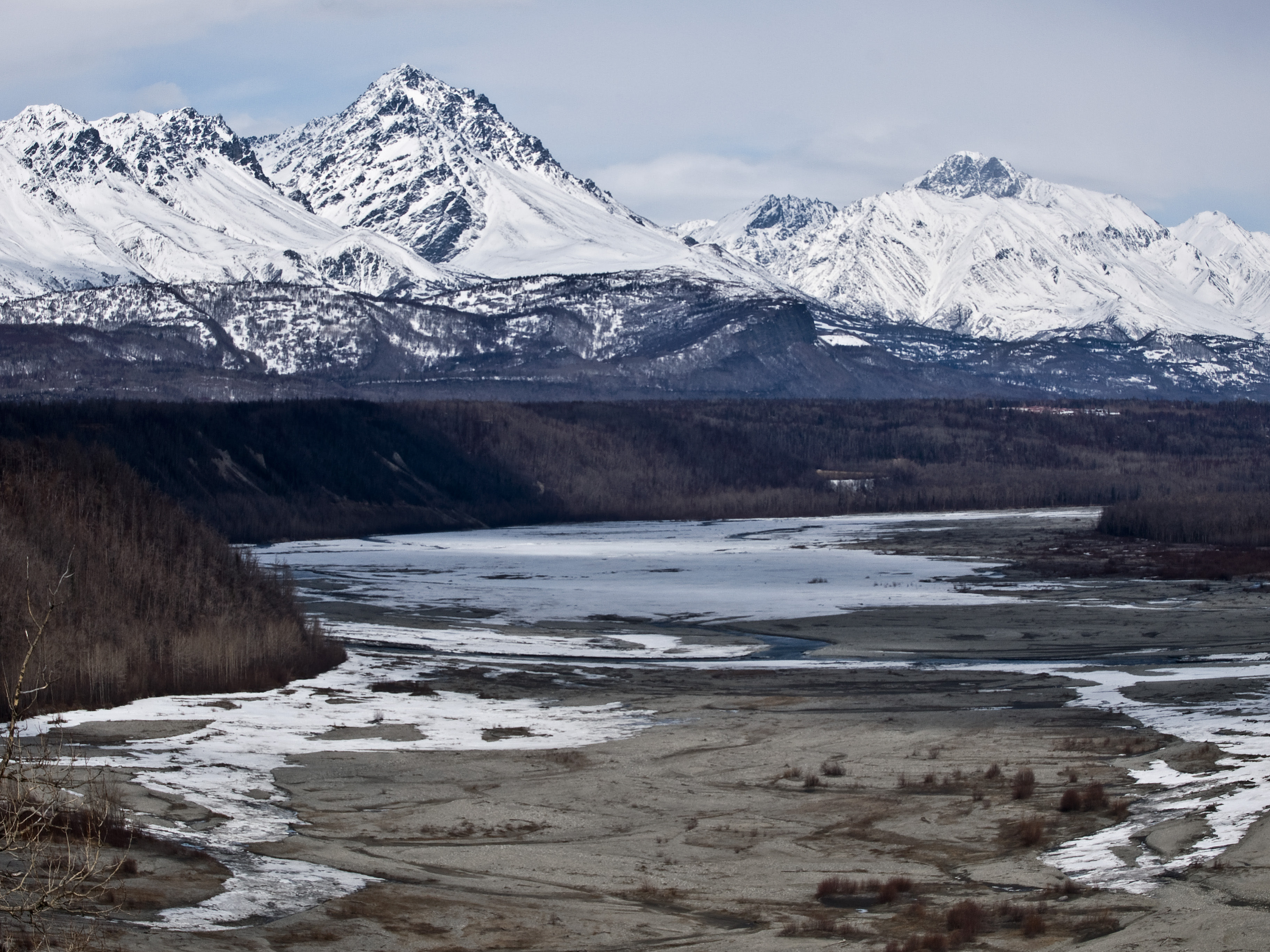 The Matanuska River in springtime.